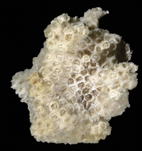 Cairns S, Kitahara M (2012) An illustrated key to the genera and subgenera of the Recent azooxanthellate Scleractinia (Cnidaria, Anthozoa), with an attached glossary. ZooKeys 227: 1-47.